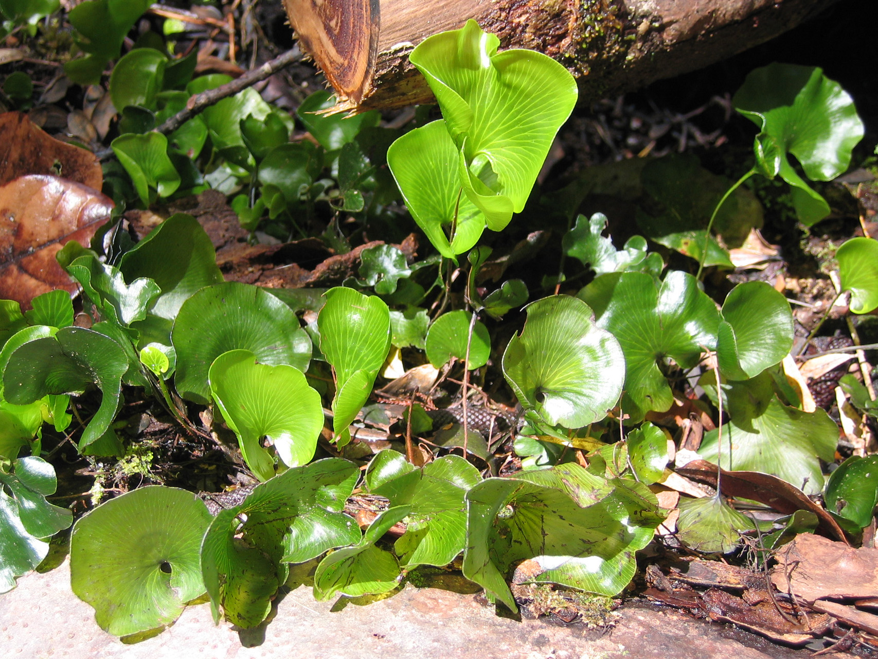 Trichomanes reniforme (Kidney fern) in Waipoua forest.